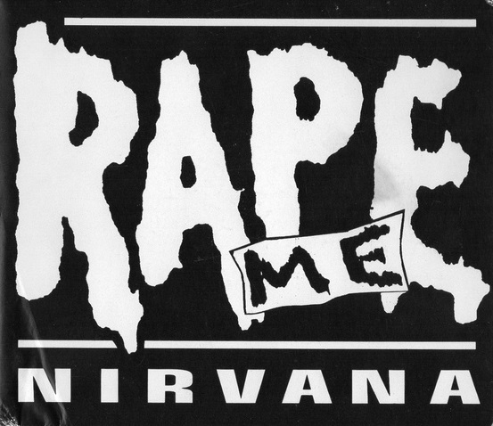 The sticker placed on the German single version of "All Apologies/Rape Me" by Nirvana.